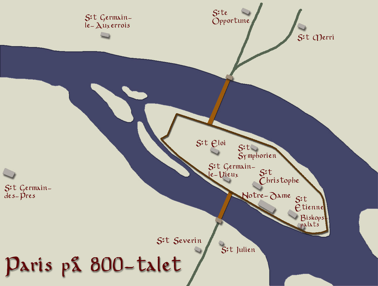 Reconstructed map of Paris, France, in the 9th century.